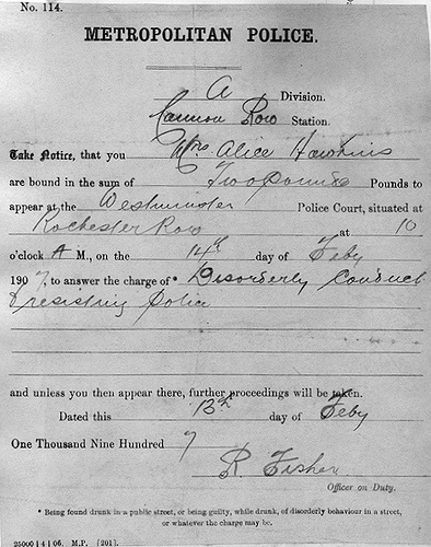 Alice Hawkins bail notice for suffragette misbehaviour 13 Feb 1907